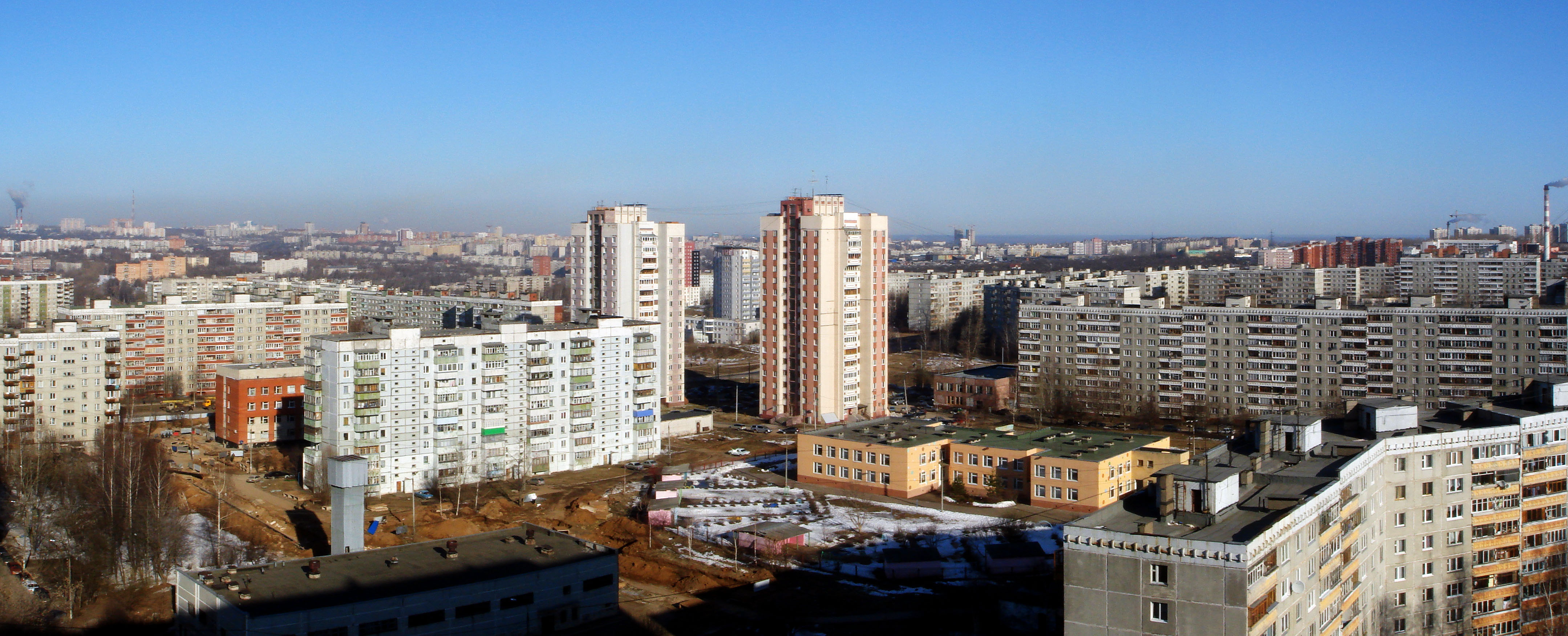 IV microdistrict "Verknie Pechyory".